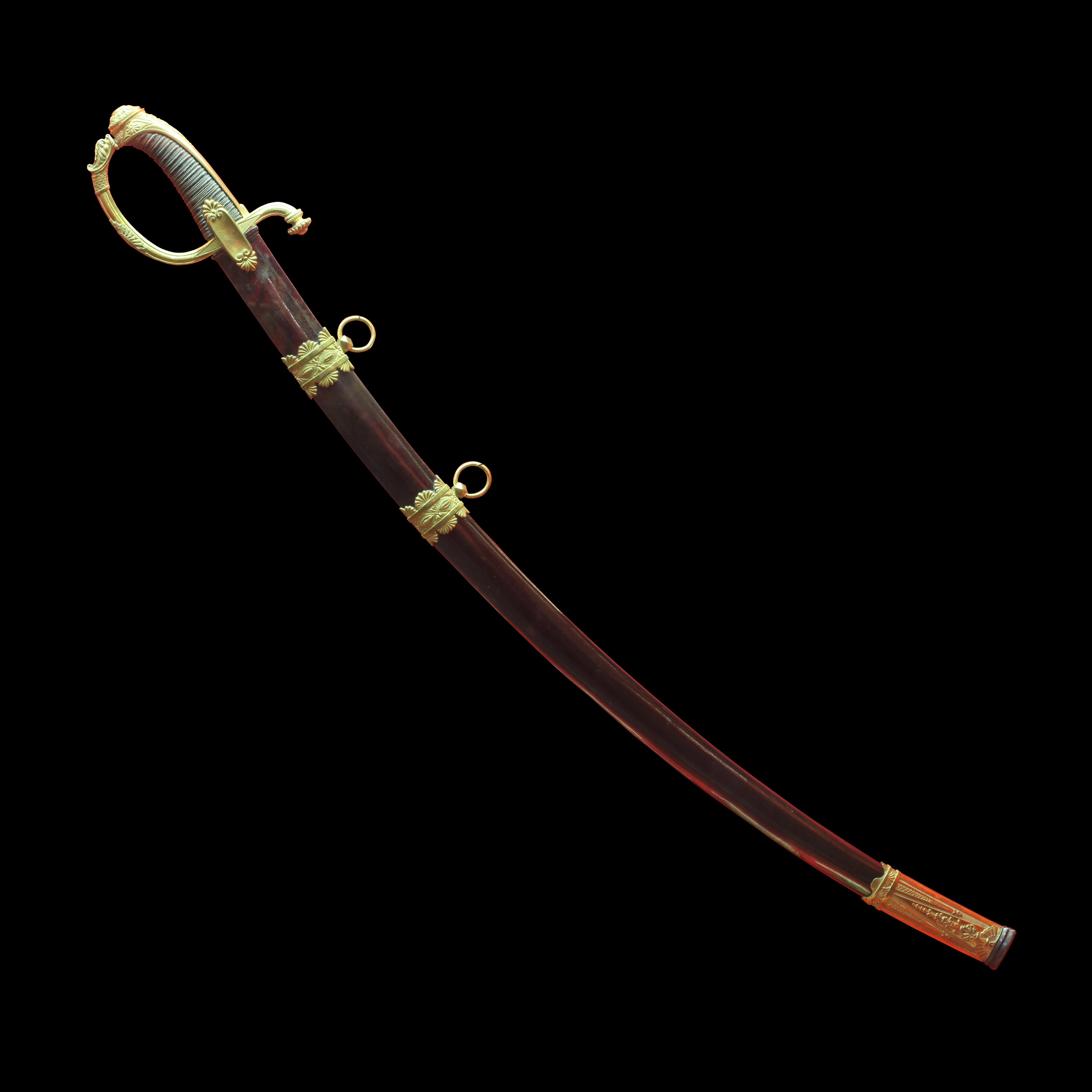 One-off luxury sabre made by Versailles factory, First Empire. On display at Neuchâtel Arts and History museum.